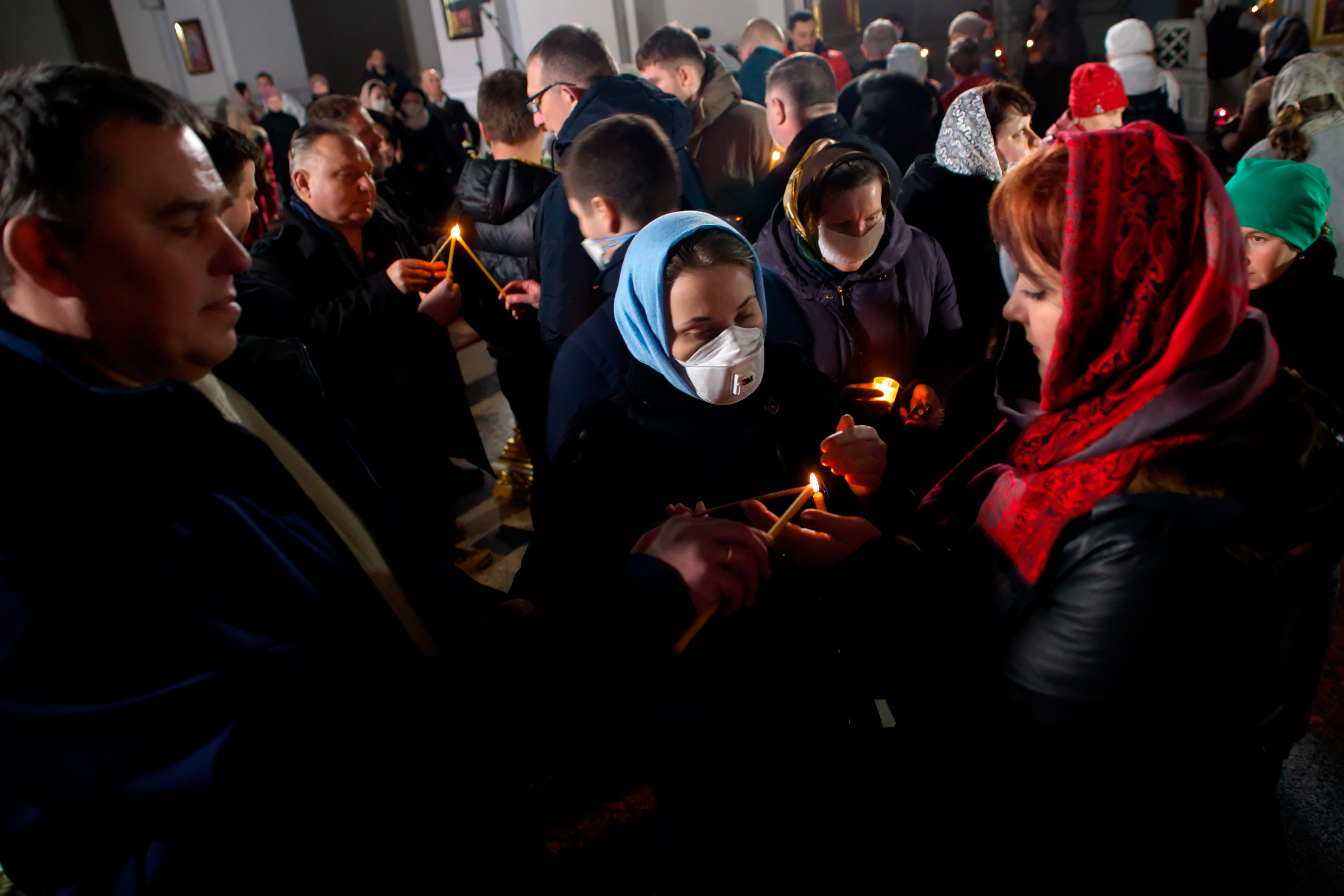 Candlelight ceremony during Easter service in the Orthodox Holy Assumption Cathedral in Vitebsk during the COVID-19 pandemic